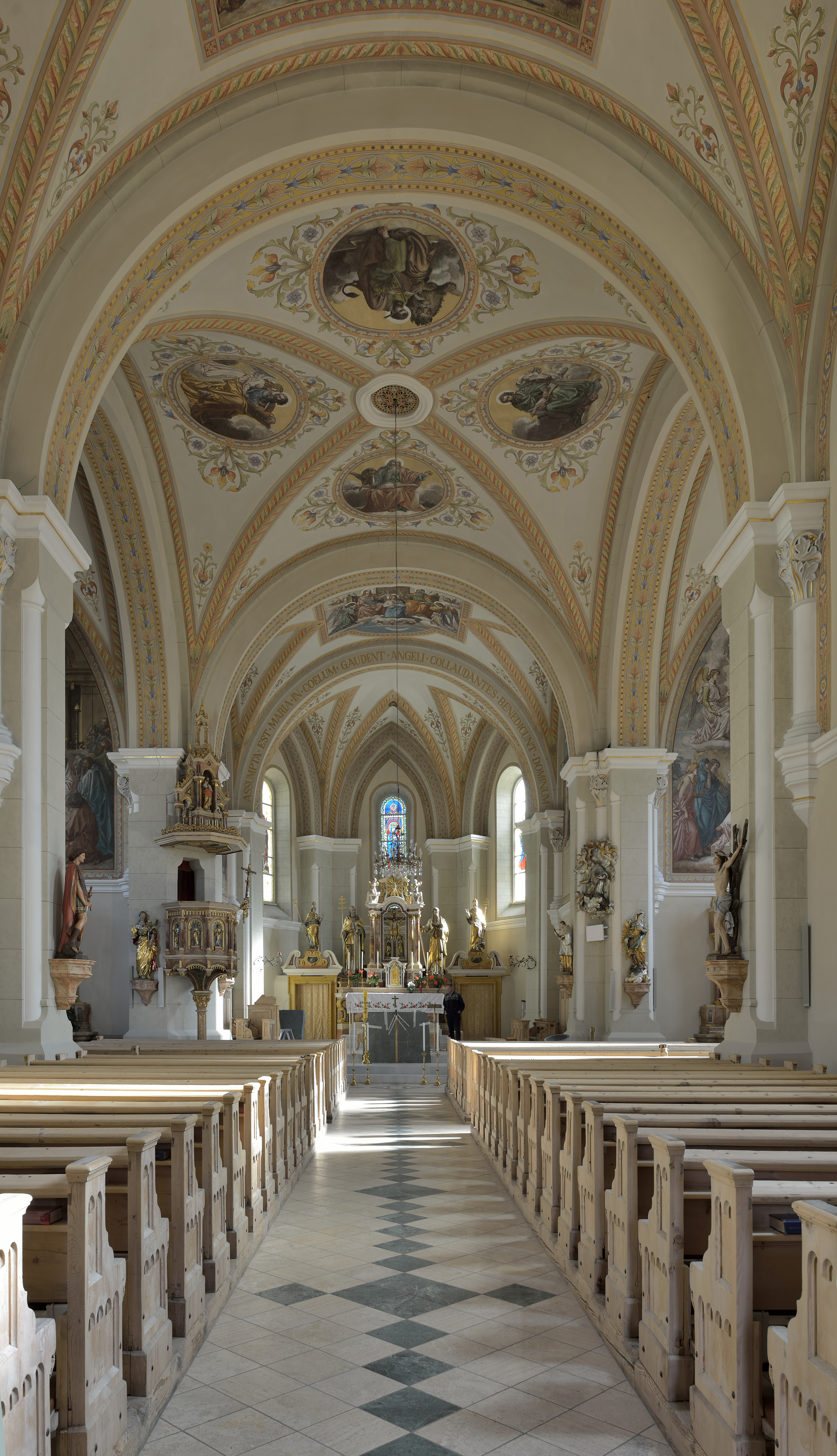 Parish church in La Val